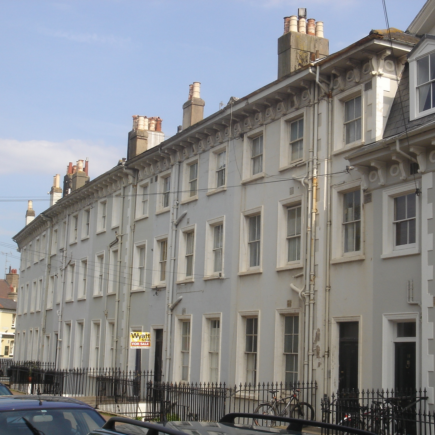 17–24 and 26–32 Park Crescent, Brighton, City of Brighton and Hove, England. Part of a crescent of houses built in about 1850 by Amon Wilds. Listed at Grade II* by English Heritage (IoE Code 481021)